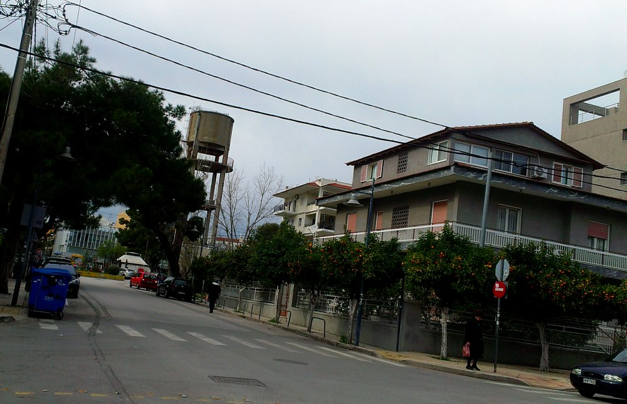 kentro-vrilission